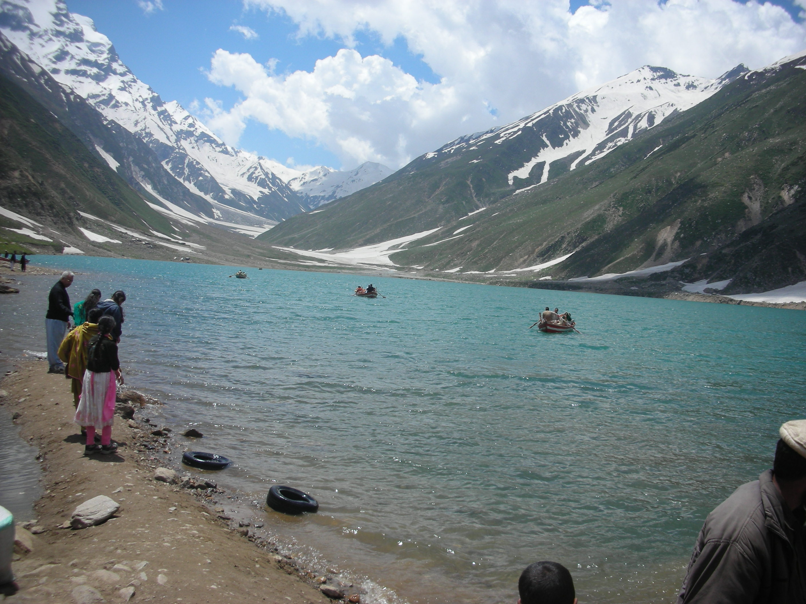 Lake Saif ul Malook is situated in Kagahn Velly, Naran, Northern Area of Pakistan.